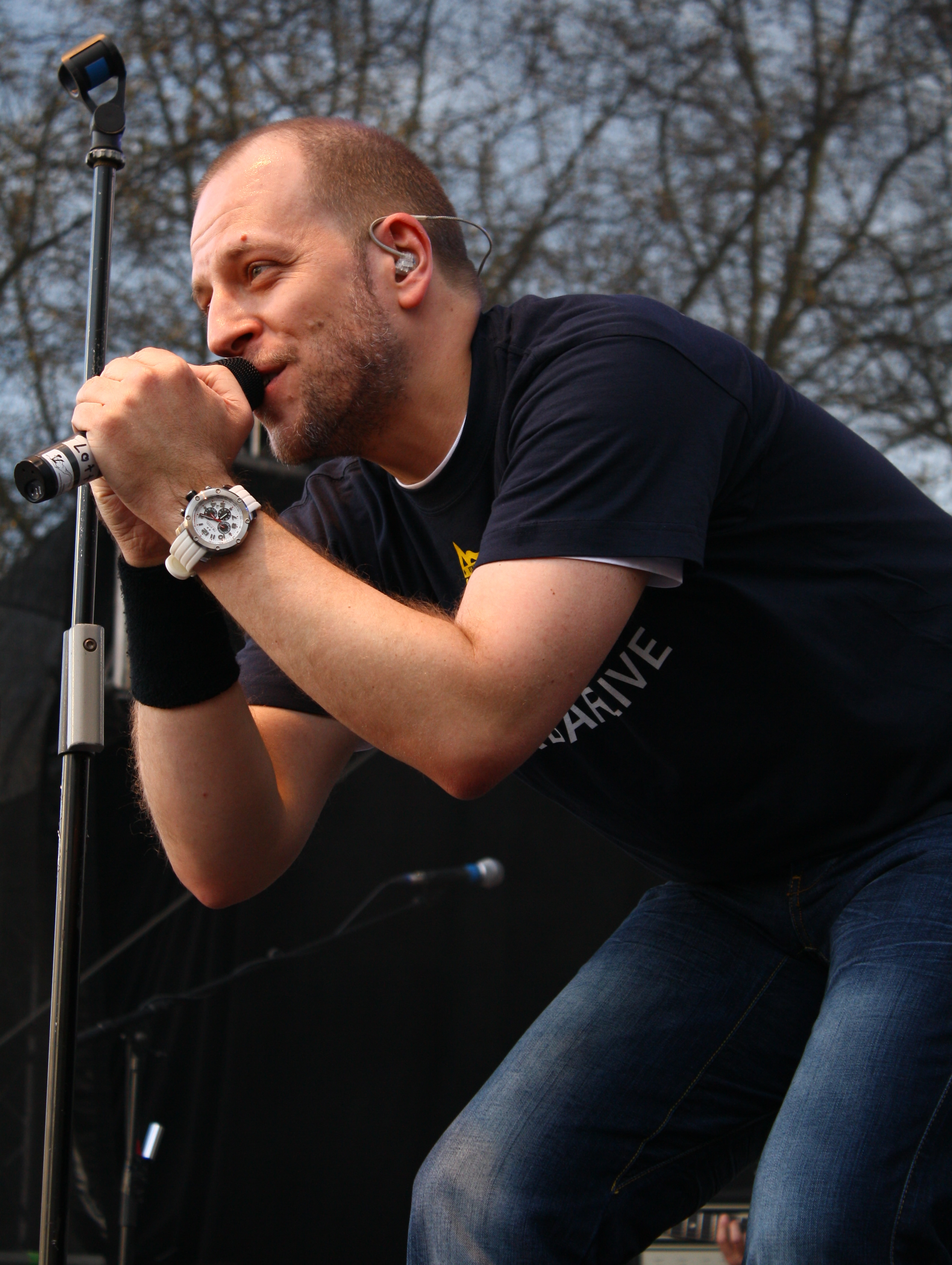 Lotto King Karl performing at the Radio Hamburg Top 820.